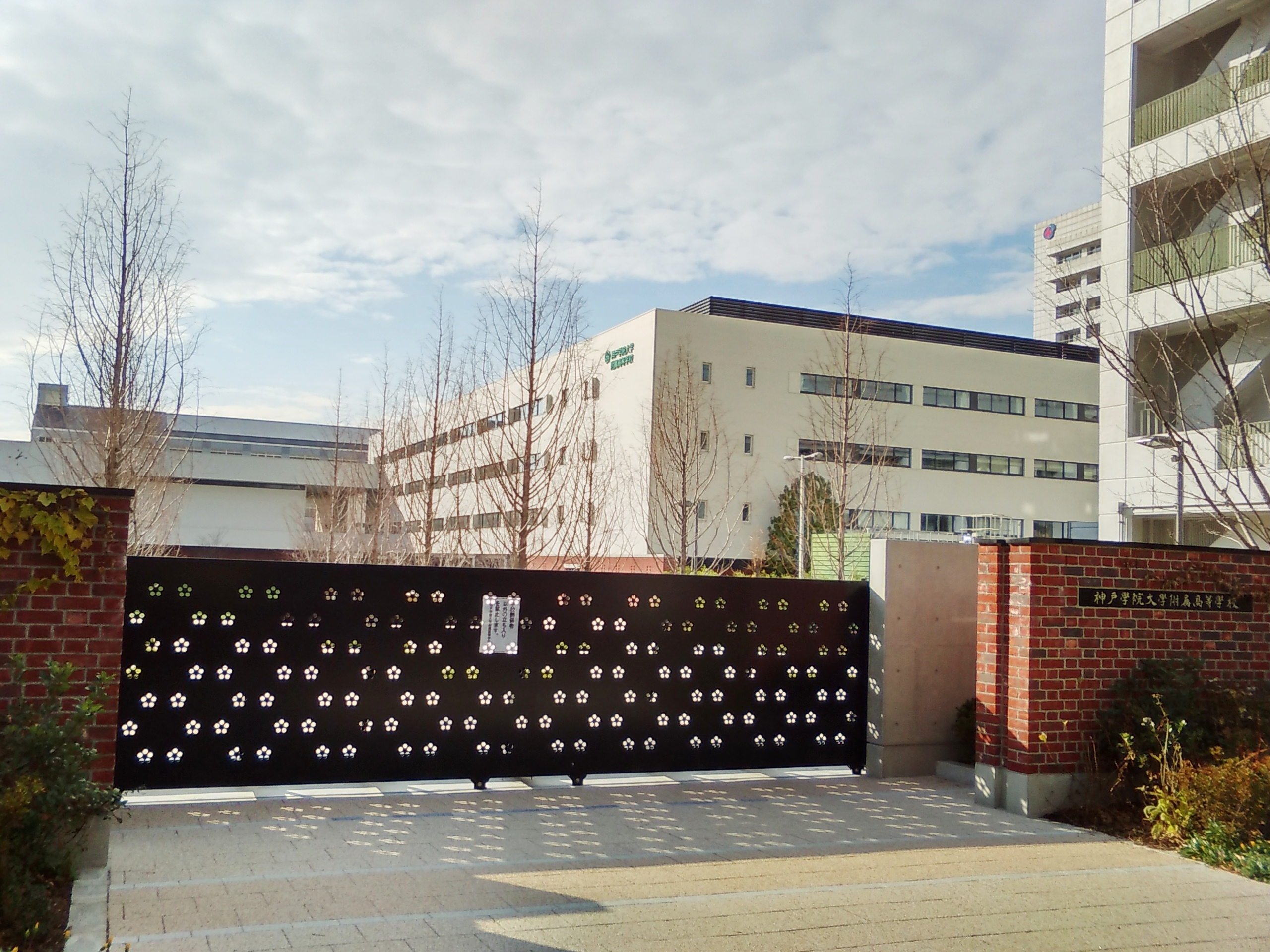 East entrance of Kobe Gakuin University High School located in Chuo-ku, Kobe, Hyogo, Japan.